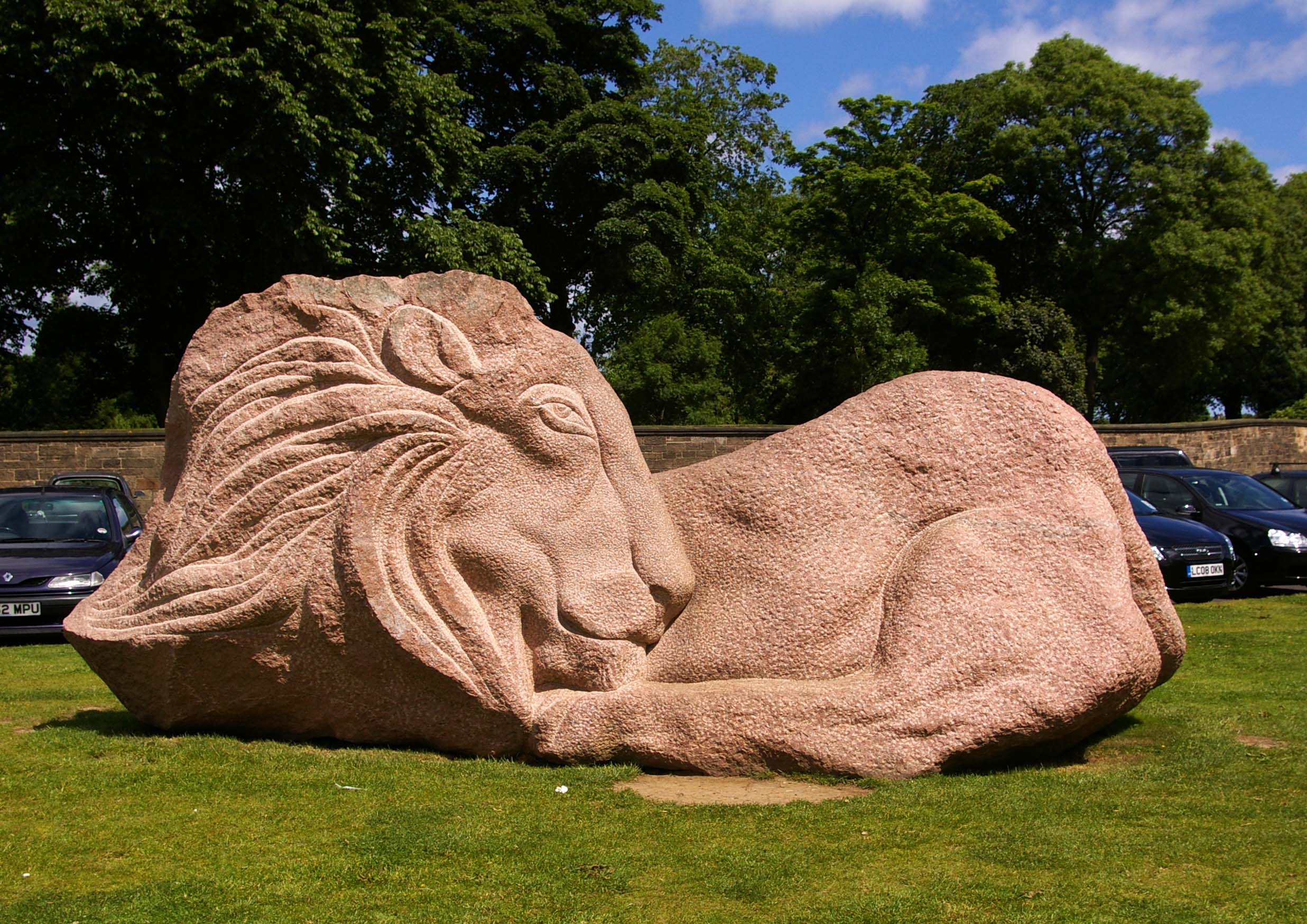 Lion of Scotland by Ronald Rae situated in the Queen's Park, Edinburgh opposite the Scottish Parliament building/U.K..